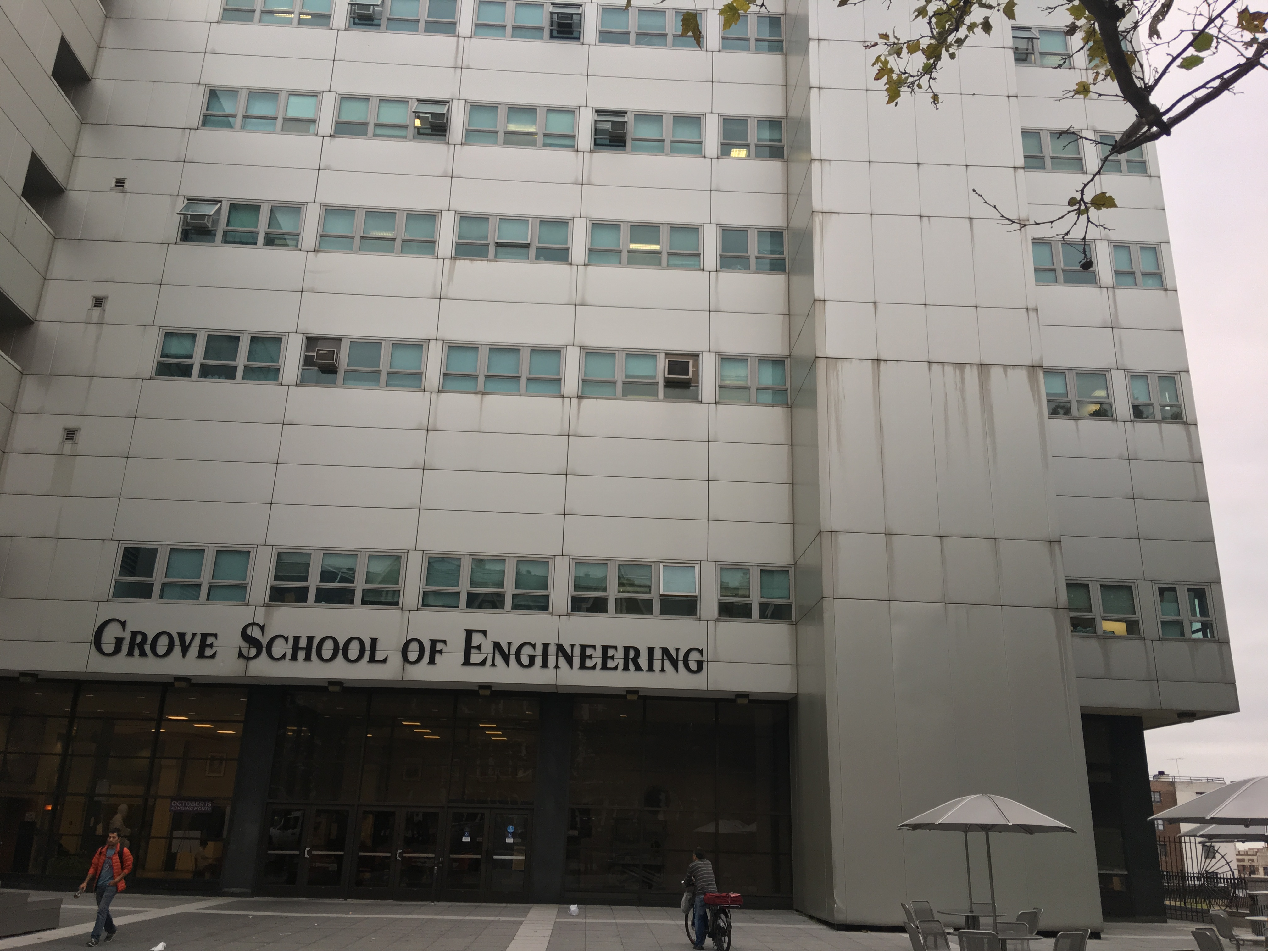 This is the entrance to the Grove School of Engineering-Steinman Hall at City College of New York (CUNY). Built in 1957 and named in honor of engineer David Barnard Steinman.